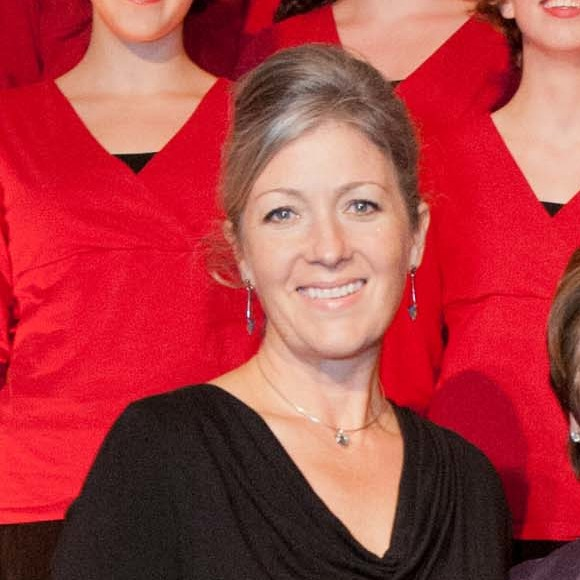 Congresswoman Pelosi joins Anthea Hartig of the California Historical Society, Trudy Schafer of the California League of Women Voters, and the San Francisco Girls Chorus as she receives Historical Society’s “Legends of California” award for her 25 years of services to San Francisco.